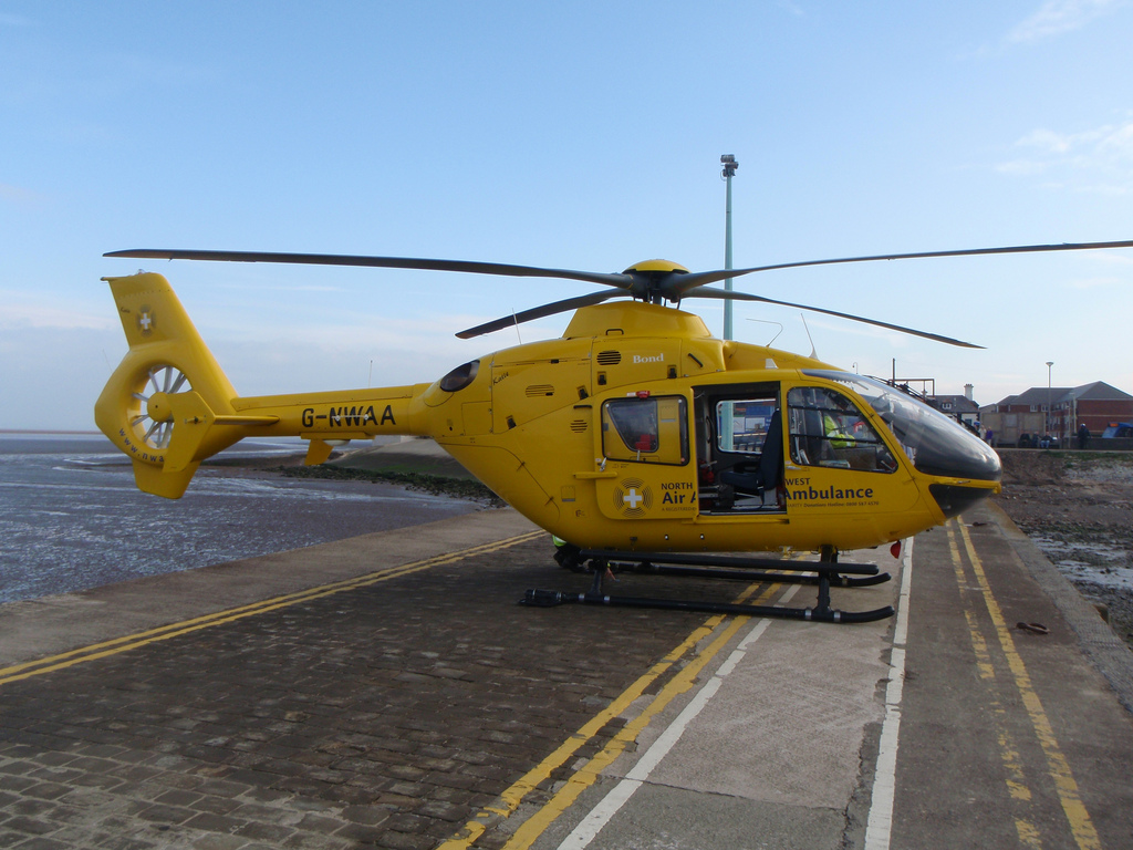 The North West Air Ambulance (HM08) landed on the pier at Knott End to assist a patient that had collapsed. The helicopter emergency medical service was first on the scene and landed directly in the pier, used for boat journeys between Knott End and the port of Fleetwood. Colleagues from the land ambulance service also attended and carried the patient to hospital.